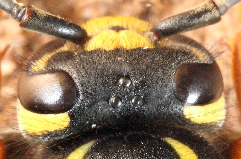 Queen of red cuckoo wasp Vespula austriaca showing the ocelli.